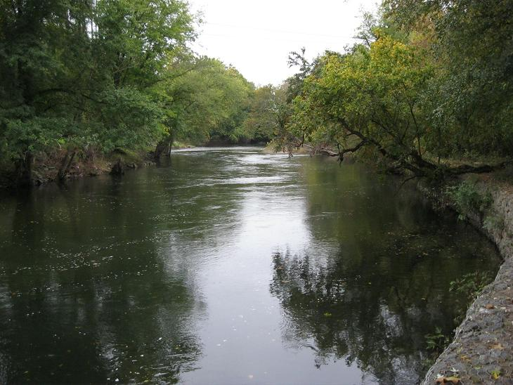 Brandywine Creek at the Brandywine Museum looking upstream toward the US 1 bridge which is about 320 yards upstream.